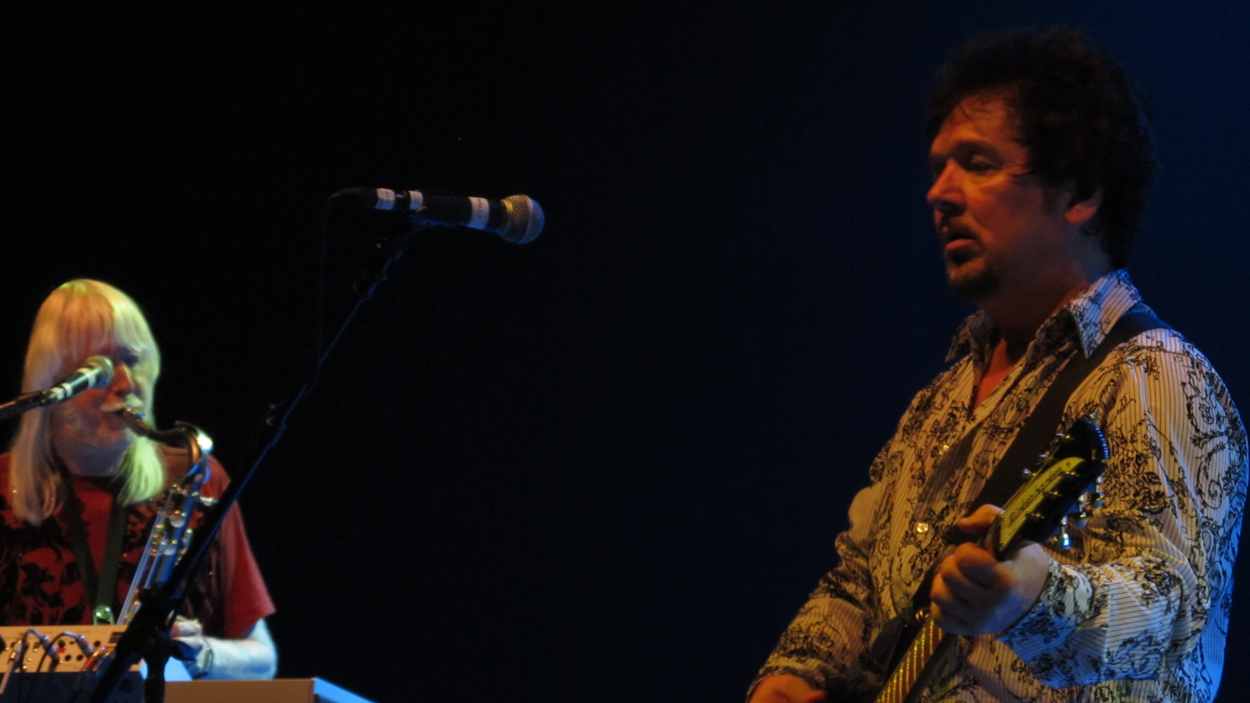 Wally Palmar and Edgar Winter with Ringo Starr concert in Paris June 26, 2011 : Ringo Starr and his All-Starr Band